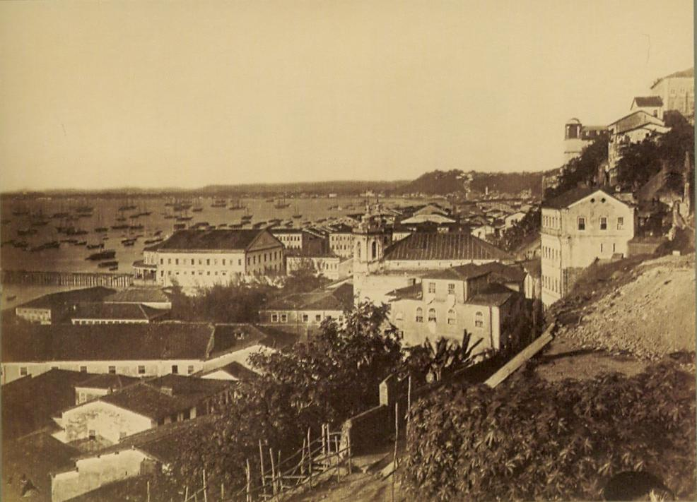 View from Salvador, province of Bahia, ca.1875.